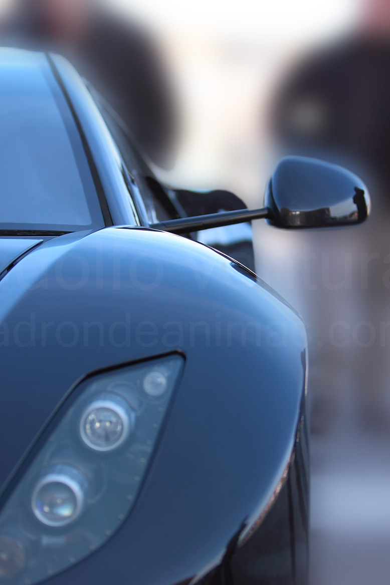 GTA Spano car